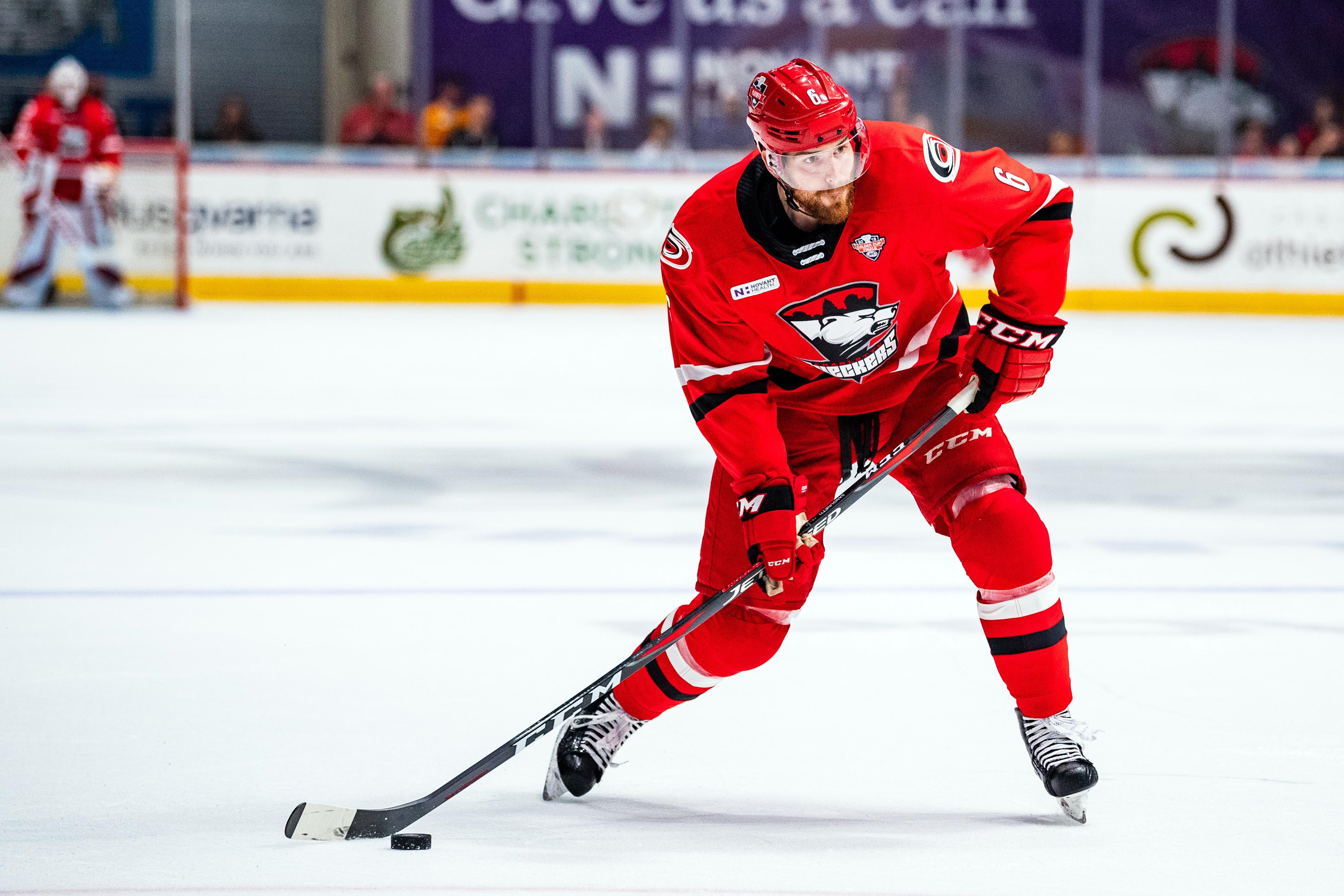 Photo: Jacob Kupferman